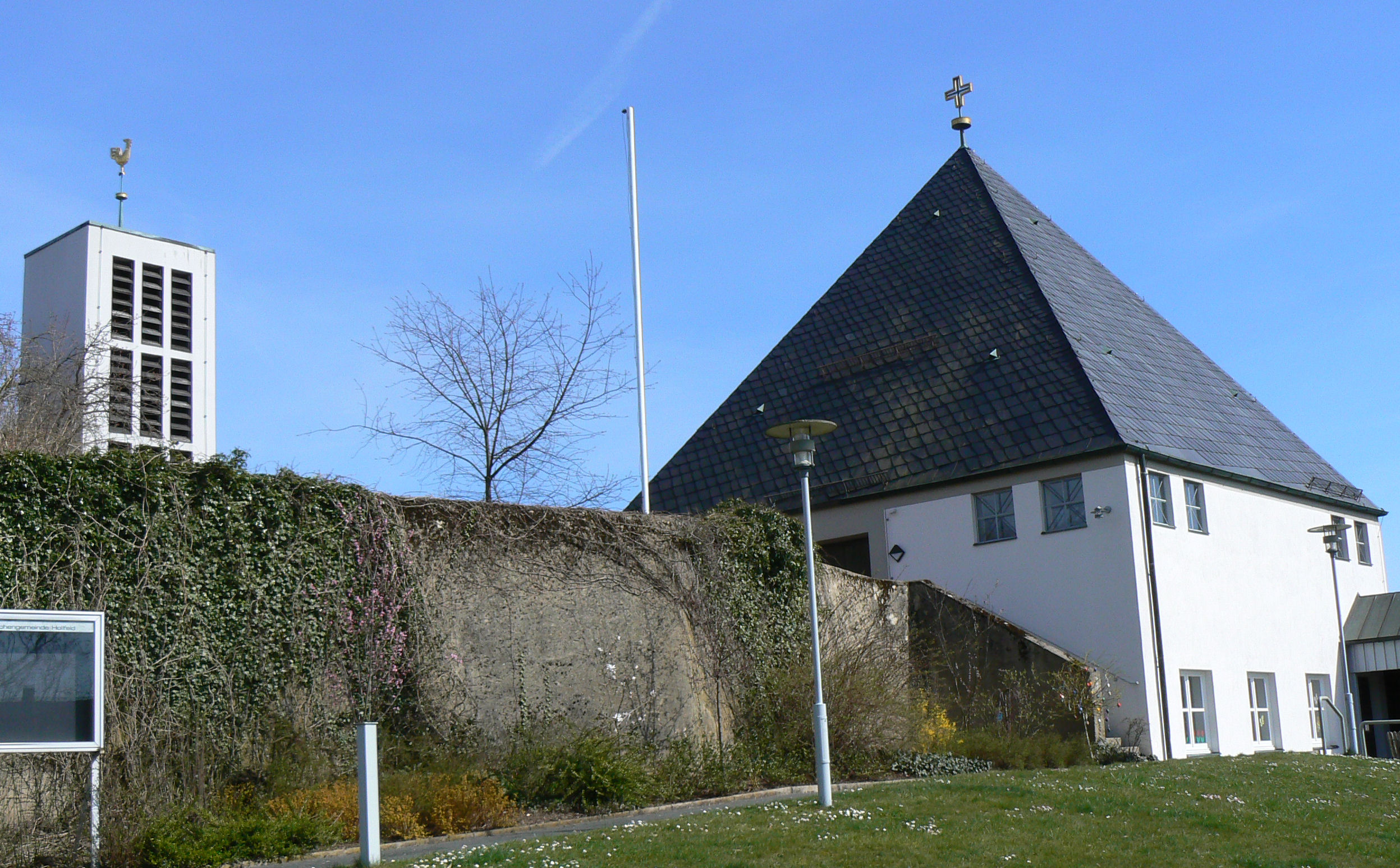 church in Hollfeld, Germany